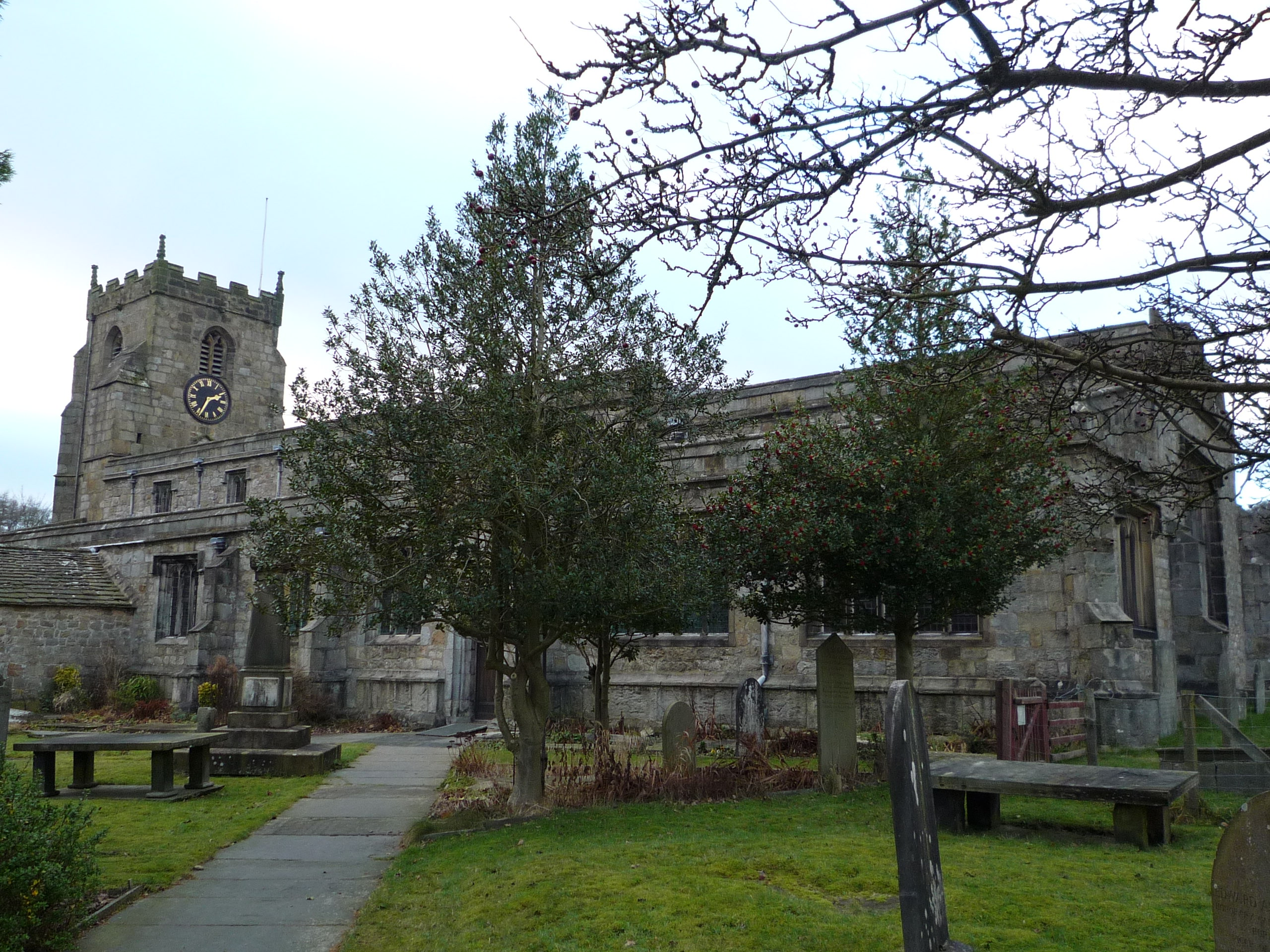 The church of "Saint Alkelda" (she may in fact by a fiction) in Giggleswick, West Yorkshire